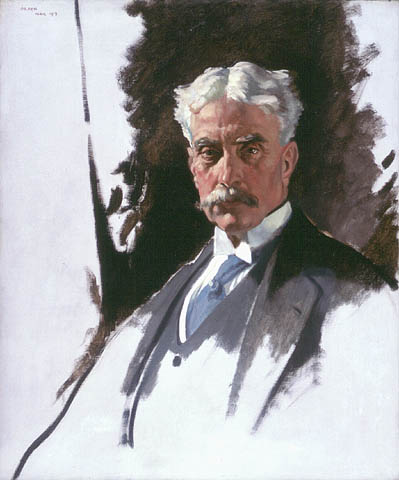 Portrait of Canadian Prime Minister Sir Robert Borden. This portrait served as the model for Borden's portrait in a large group portrait of the conference delegates which now hangs in the Imperial War Museum in London.